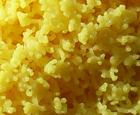 Fuligo septica from Southern Germany, Kreis Tuttlingen